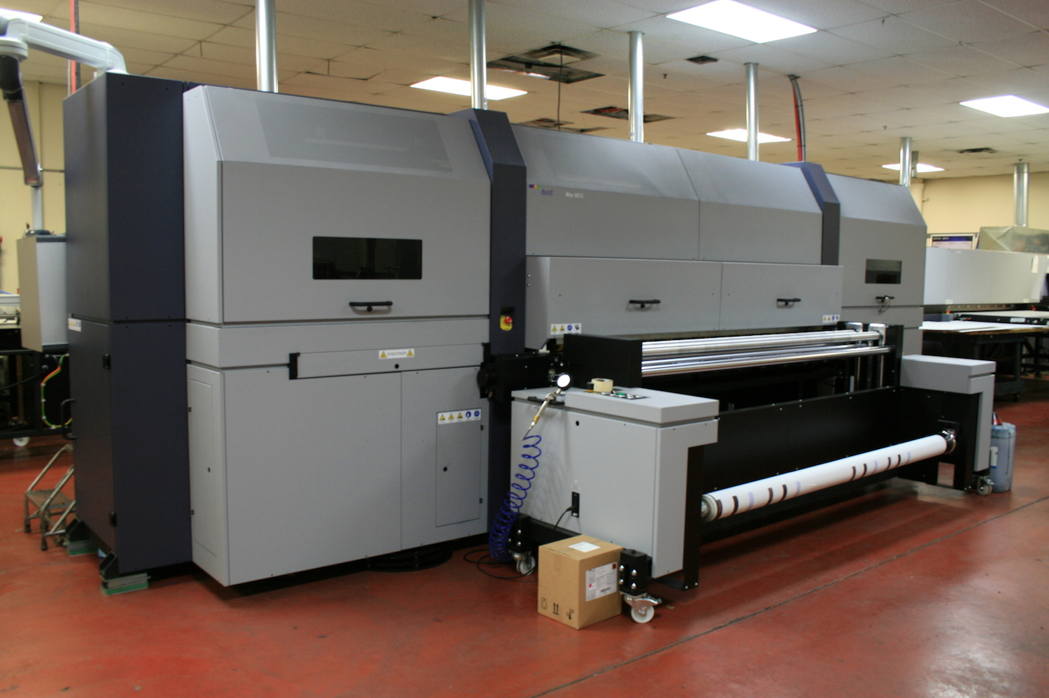 Commercial Digital Printing Press, this press can handle media 98 inches wide. It can print on pre-cut rigid sheets or rolled media. This press can print 1,000 DPI images on numerous substrates.This large format press is manufactured by Durst Image Technology and is located at Coyle Reproductions.